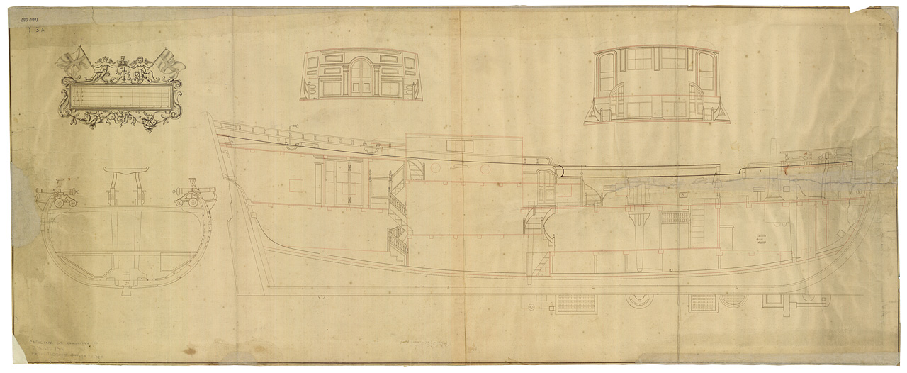 'Carolina' [also 'Royal Caroline'] (1716) Scale 1:32. A plan showing the inboard profile, midships section, elevation of the bulkheads and longitudinal half-plan view of the Royal Yacht 'Carolina' [also 'Royal Caroline'] (1716). The scale on this drawing is set in an elaborate cartouche. Carolina' [also 'Royal Caroline'] (1716). A plan showing the inboard profile, midships section, elevation of the bulkheads and longitudinal half-plan view of the Royal Yacht 'Carolina' [also 'Royal Caroline'] (1716).